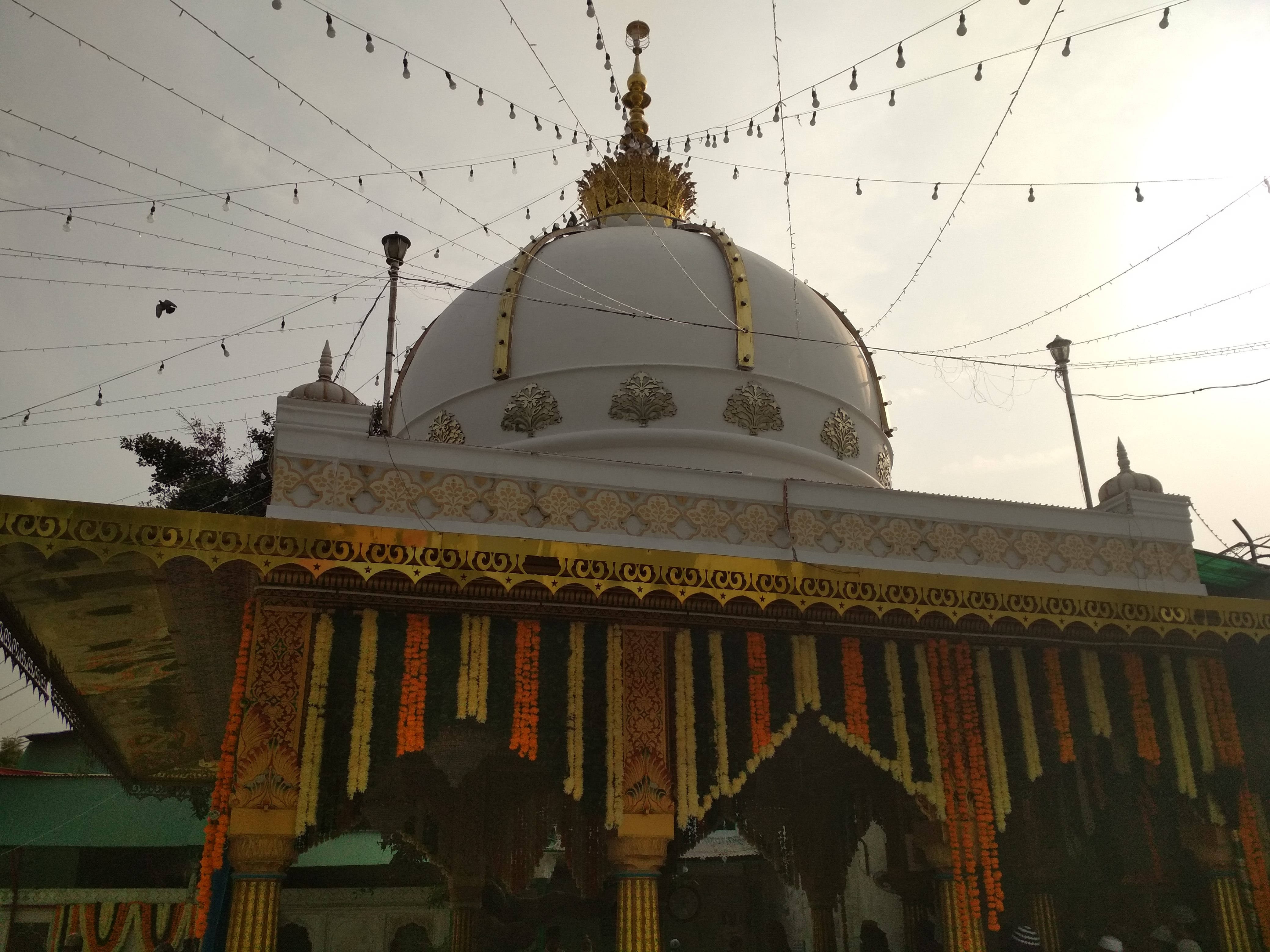 Qutbuddin Bakhtiar Kaki ,Mehrauli Sharif